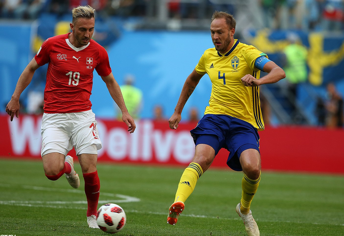 2018 FIFA World Cup Match 55, Sweden v Switzerland